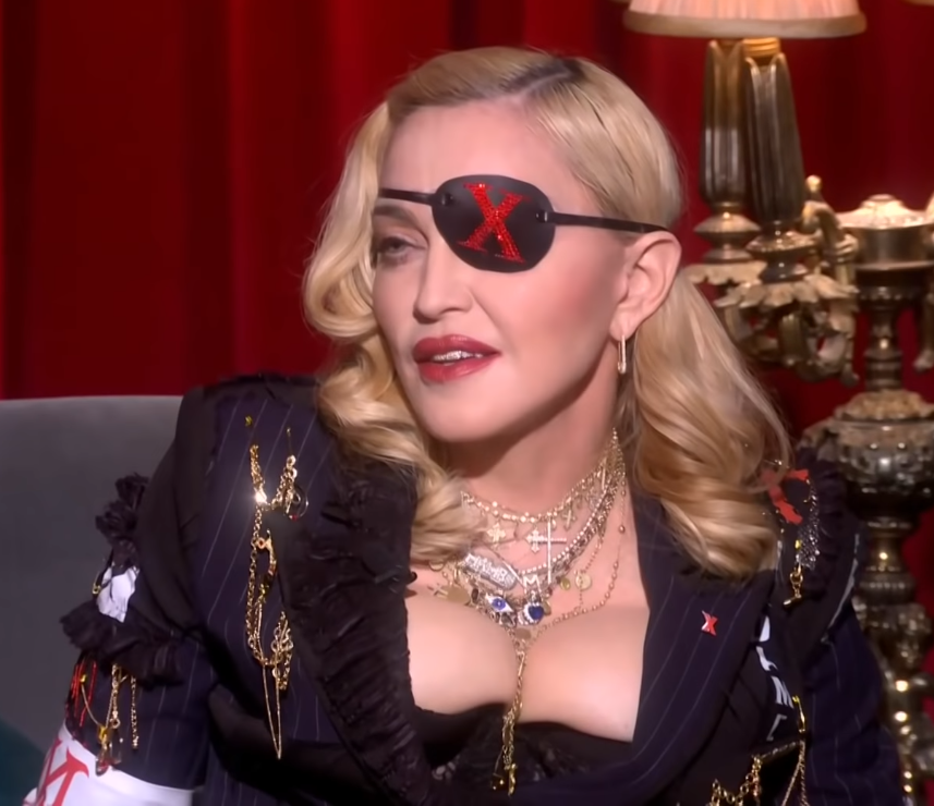 Madonna during the world premiere of her music video "Medellin" on MTV